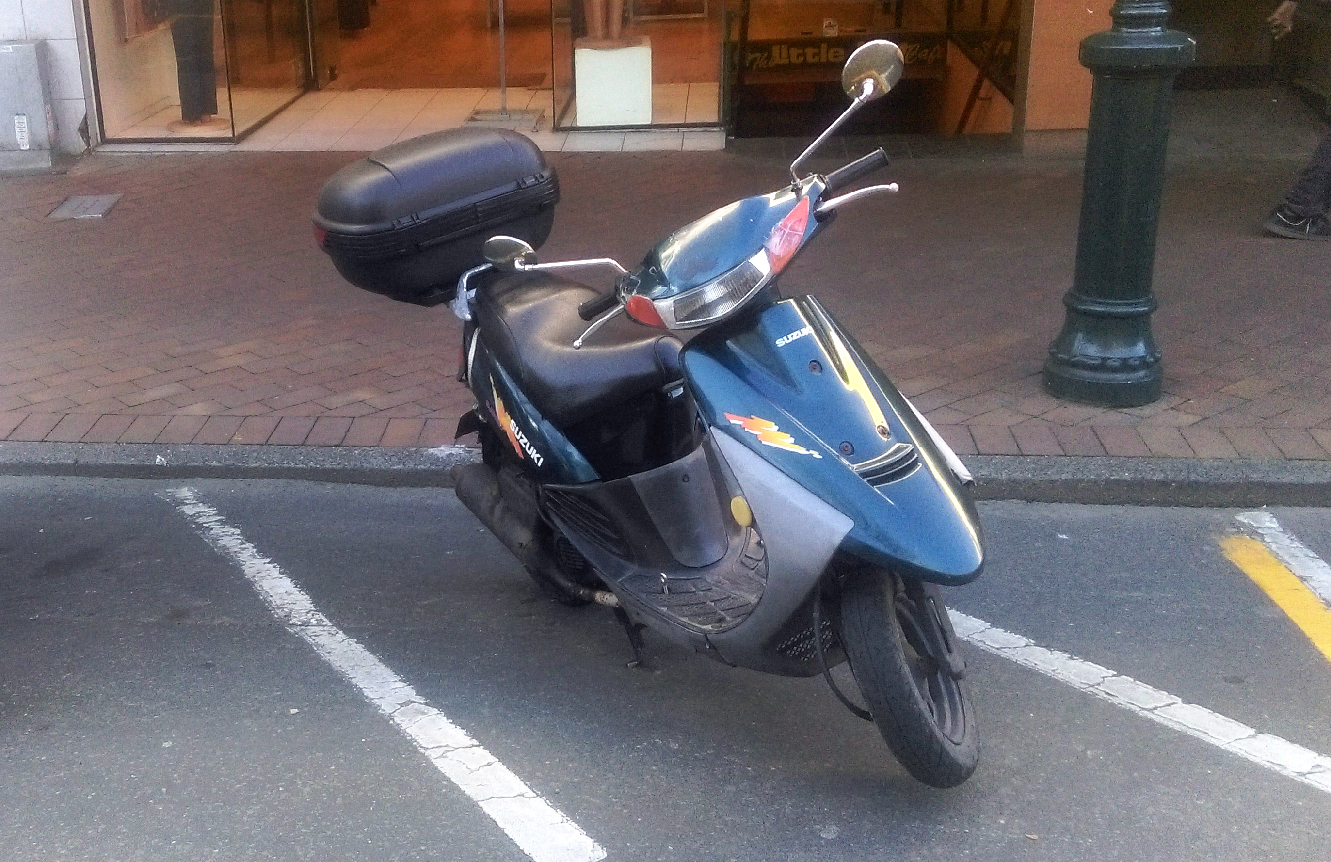 Picture of a Suzuki SJ50QT motor-scooter in New Zealand.